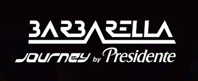 Barbarella present the Journey